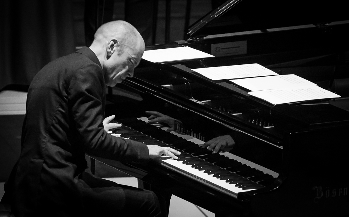 Tord Gustavsen and Oslo Domkor in Oslo Cathedral. The concert was part of the Oslo Jazz Festival in Norway and took place on 18. August 2016. Lineup: Tord Gustavsen (piano) Tore Brunborg (saxophone) Oslo Domkor (choir) Vivianne Sydnes (conductor)